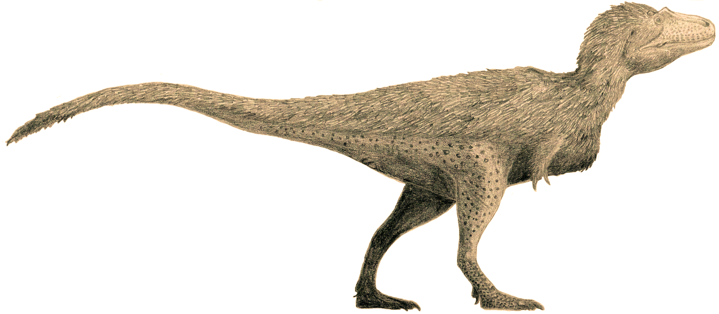 Lythronax life reconstruction by Tomopteryx.